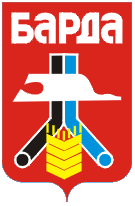 Coat of Arms of Bardymsky rayon, Perm krai, Russia, 1986